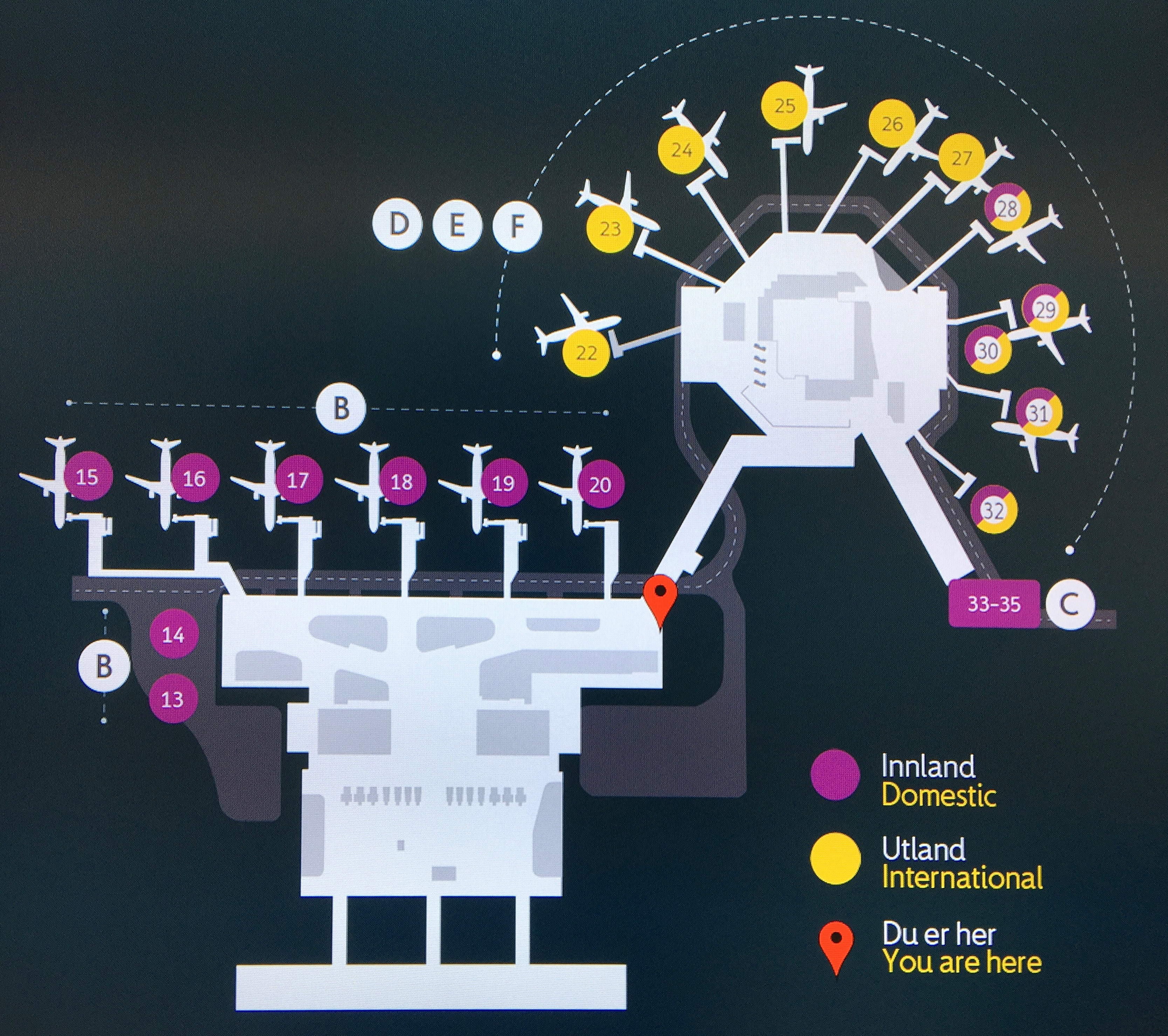 Plan of Bergen Airport, Flesland, Norway. Detail from information board/flight information display at the airport.